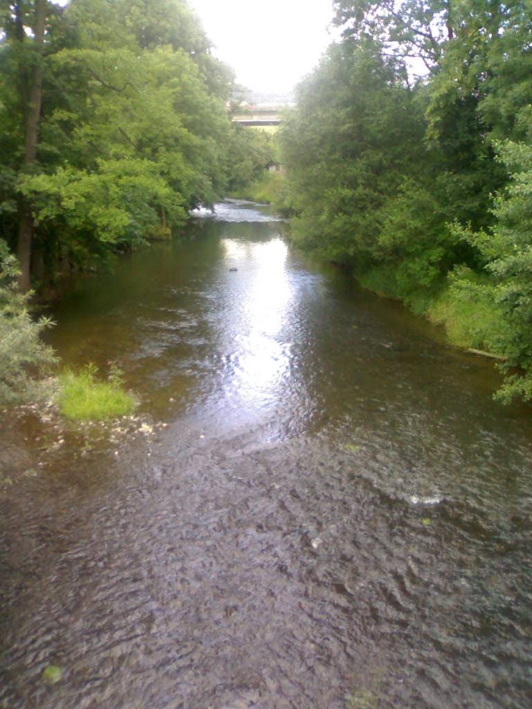 Tichá Orlice between Ústí nad Orlicí and Libchavy